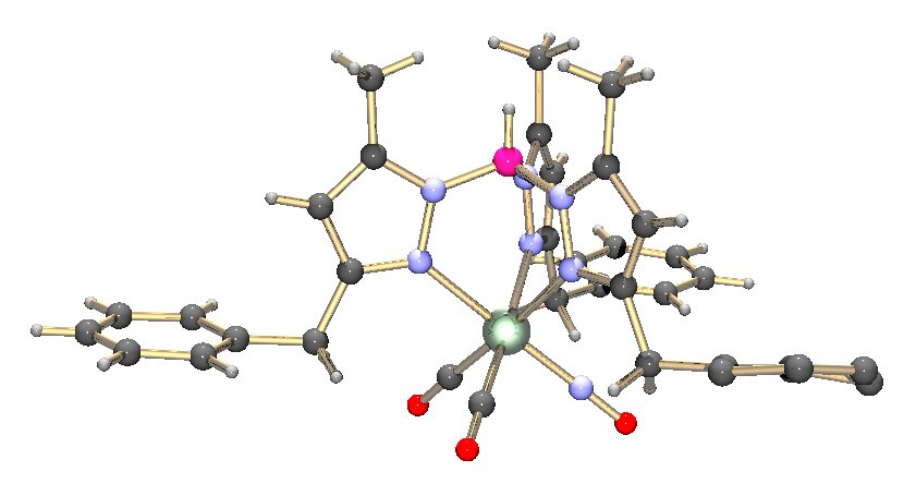 A Tp dicarbonyl nitrosyl complex of Mo